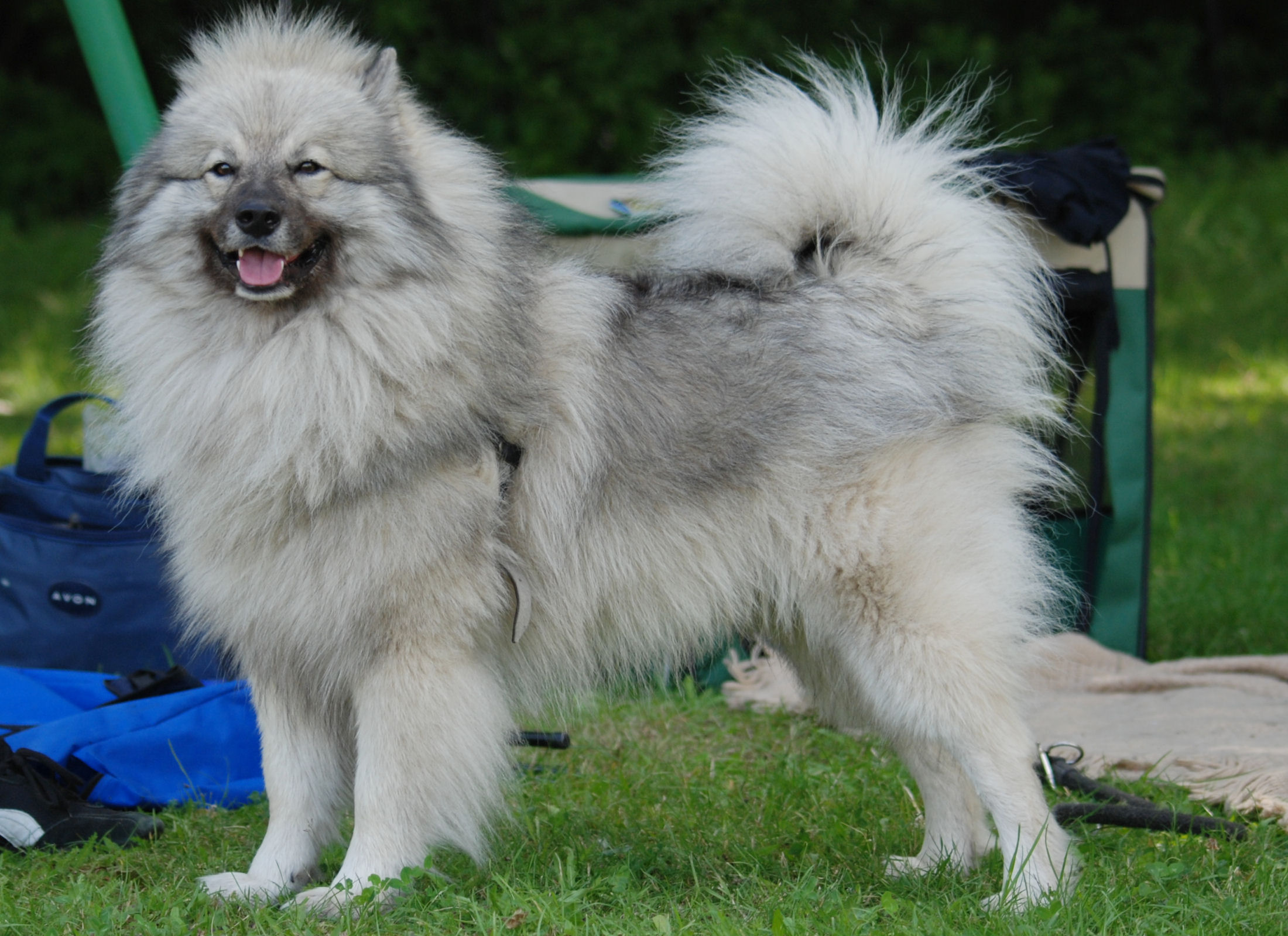 Keeshond XXXIII dogs show in Ustroń, Poland